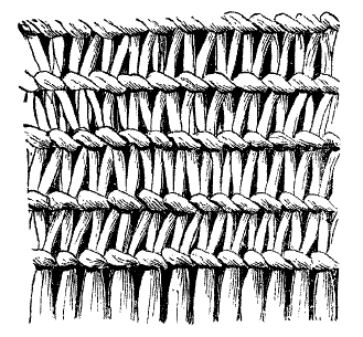 Plain twined welt on zigzag warp in Aleut wallet